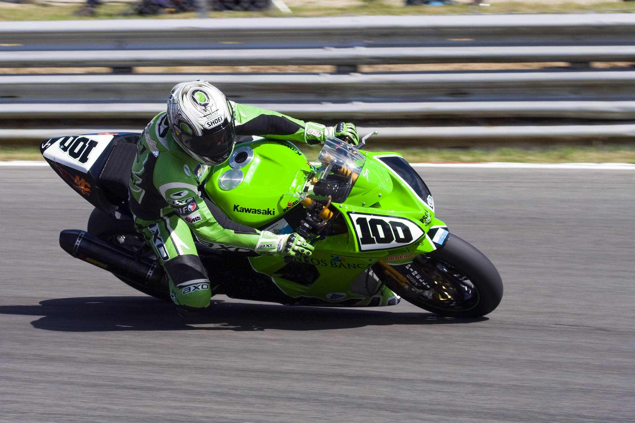 Brands Hatch World Superbike Meeting August 2008 Practice Day. Druids Bend.